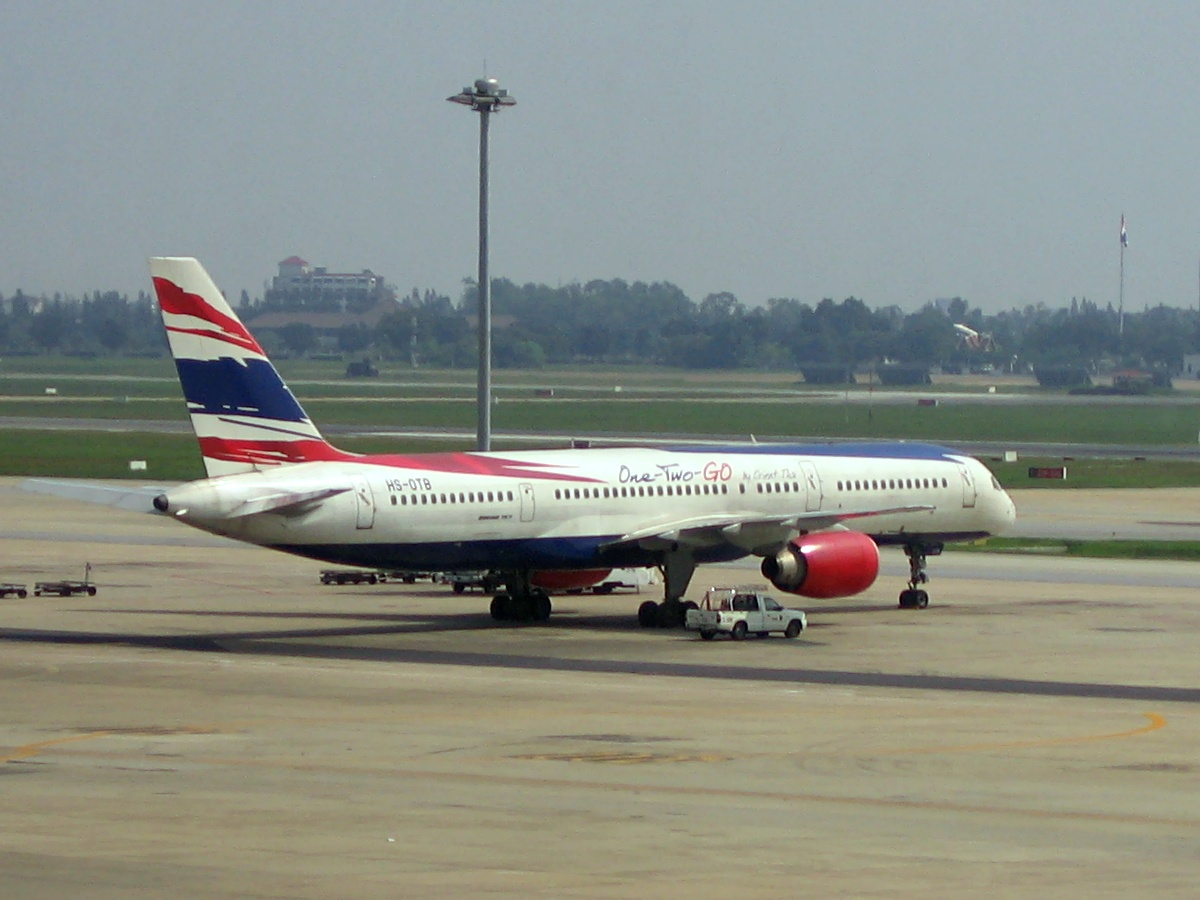 One-Two-GO Boeing 757-200 (operated by Orient Thai) at Bangkok International Airport.